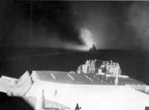 View forward from the U.S. Navy light cruiser USS Columbia (CL-56) during the Battle of Empress Augusta Bay, 1-2 November 1943. The ship visible ahead should be USS Cleveland (CL-55).